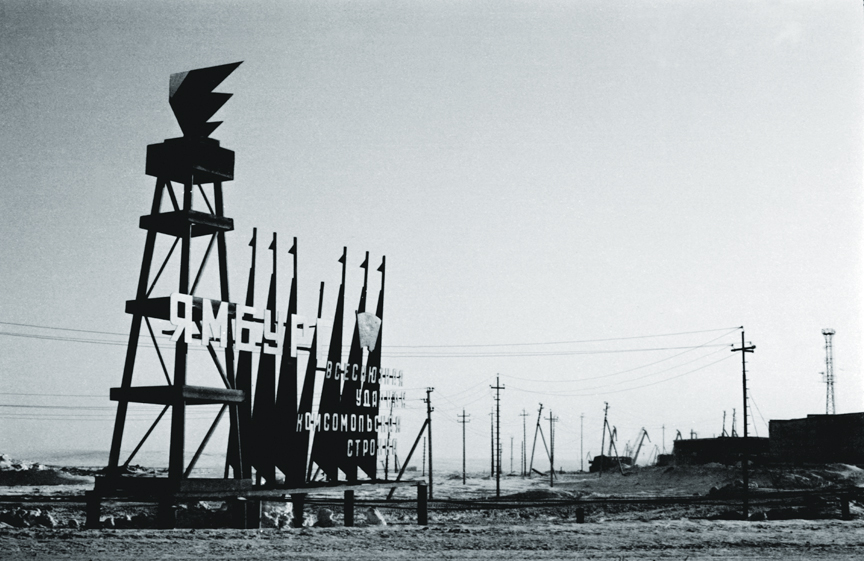 Yamburg, Yamalo-Nenets Autonomous Okrug. Entry. 1986